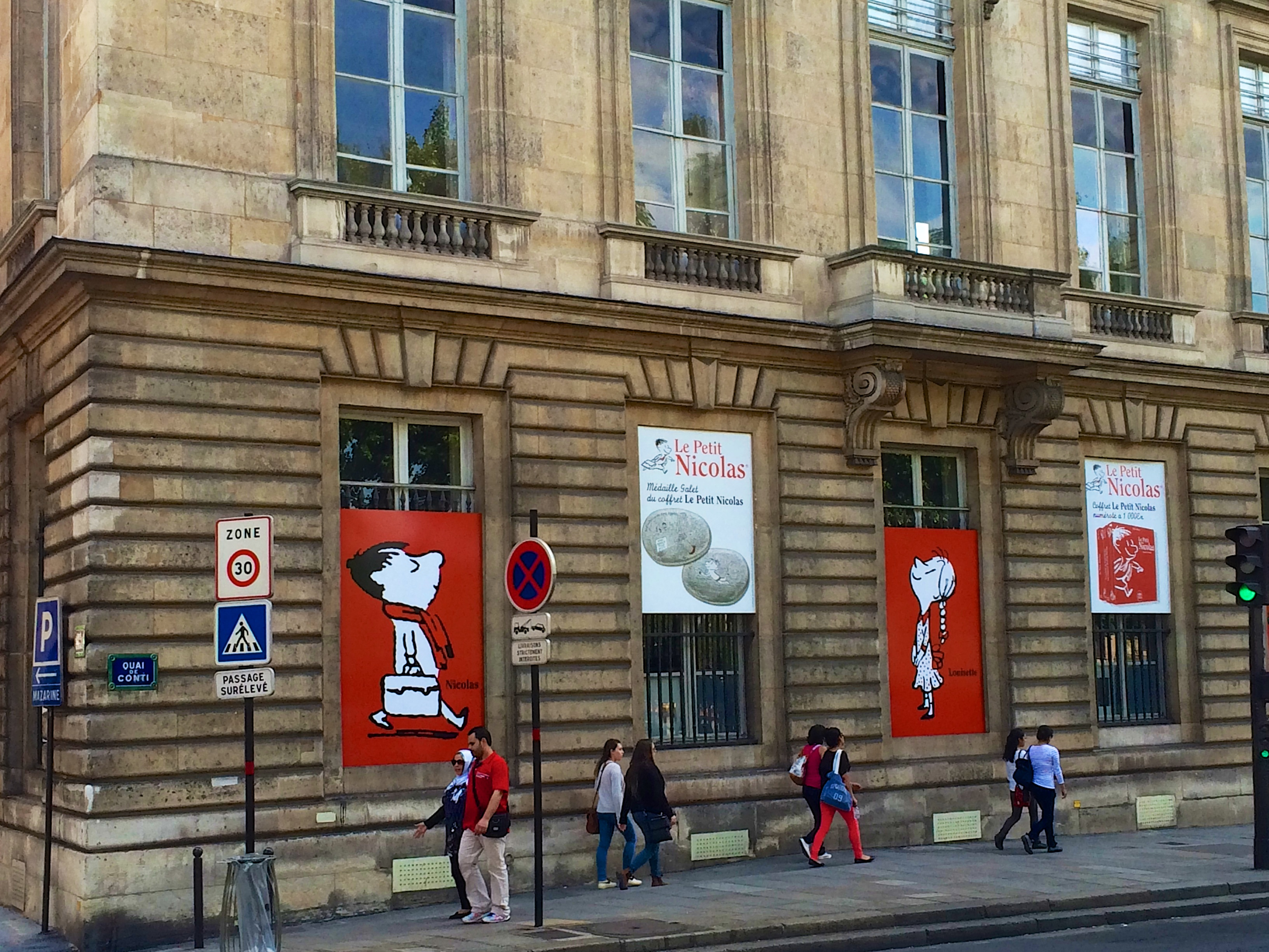 Quay Conti, Left Bank, Paris